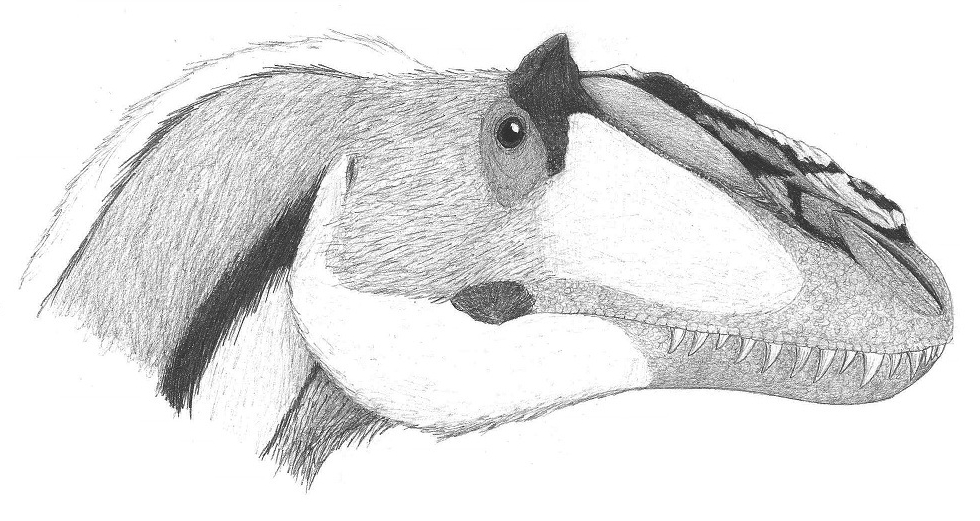 Head profile of Yutyrannus, the feathered tyrannosauroid from lower Cretaceous Yixian, based on ELDM V1001.